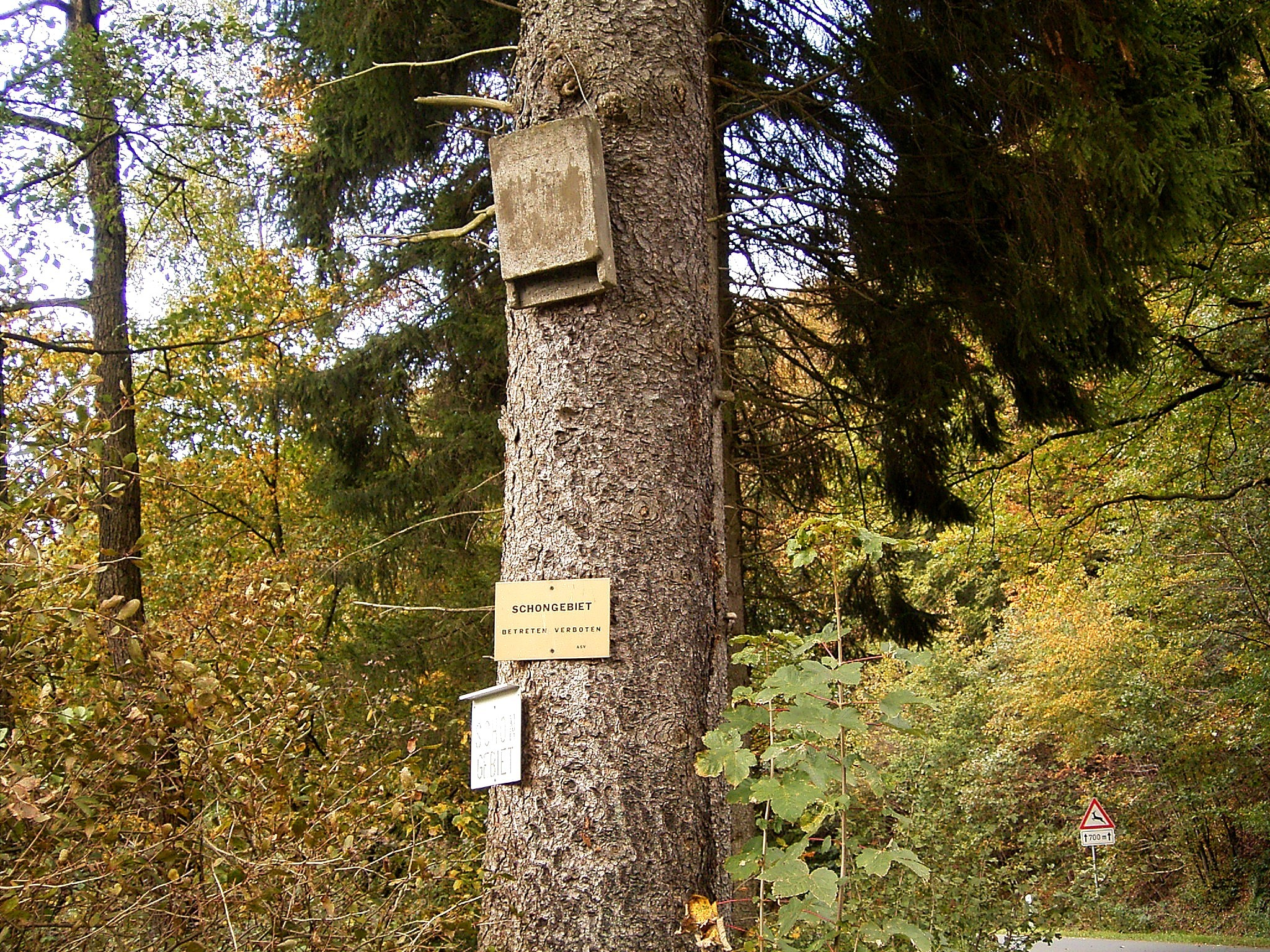 Radevormwald, bat house of Myotis daubentoni